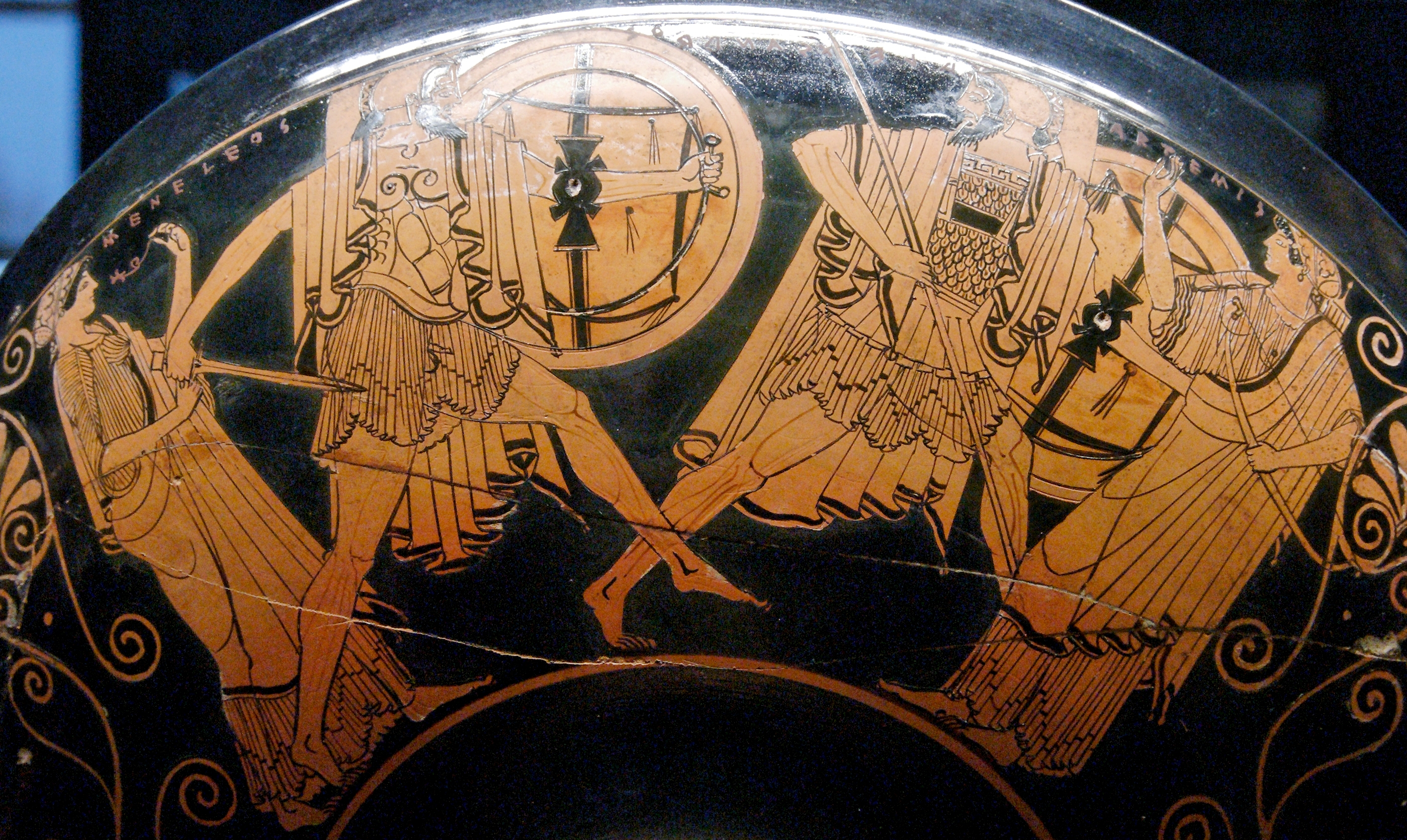 Menelaus (centre-left) pursues Paris (centre-right) as Aphrodite (left) and Artemis (right) watch on. Side A from an Attic red-figure kylix, ca. 490–460 BC. From Capua.